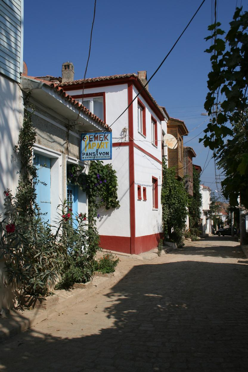 A street in Bozcaada Island